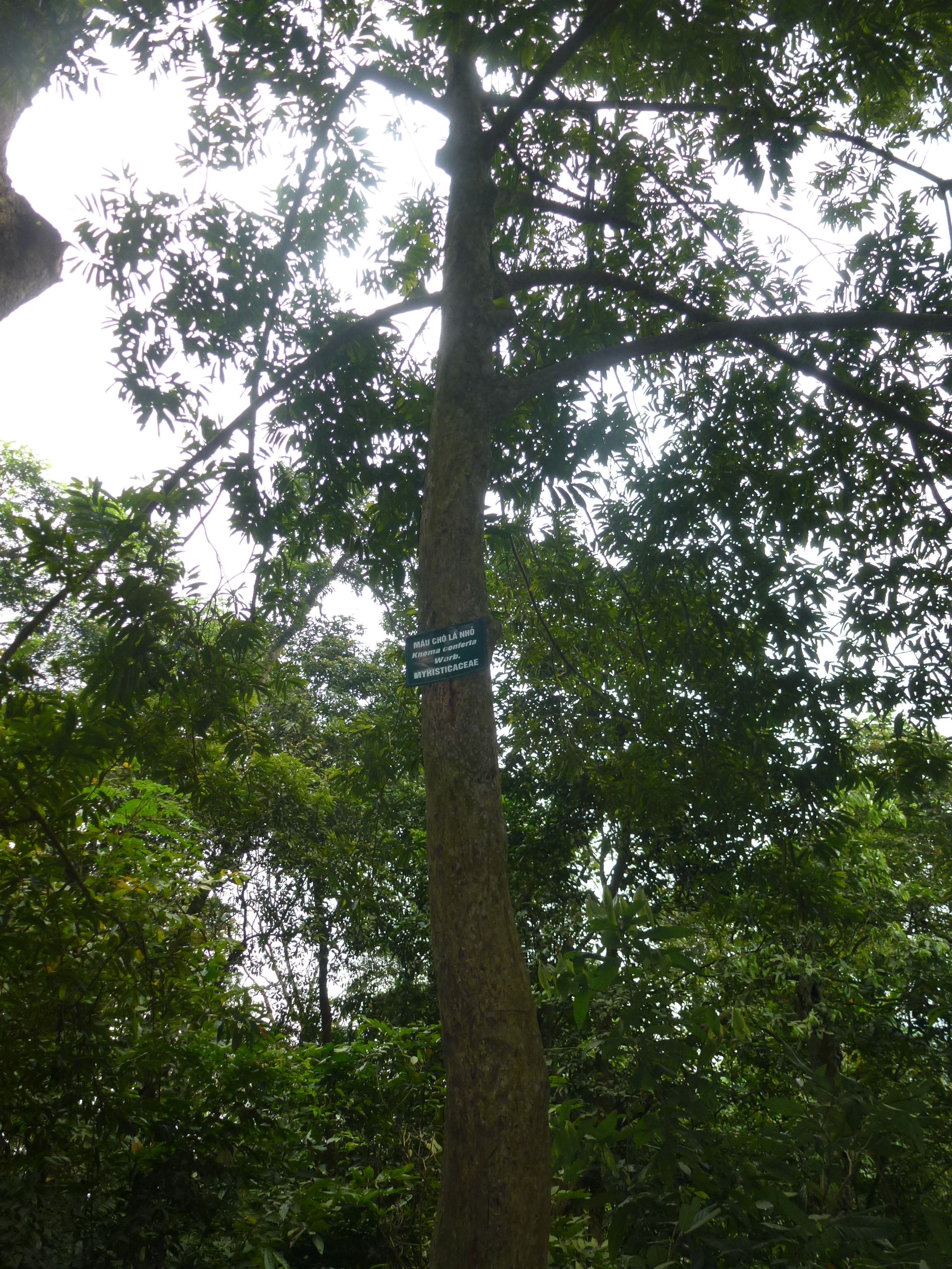 Knema conferta at Hùng Temple, Vietnam